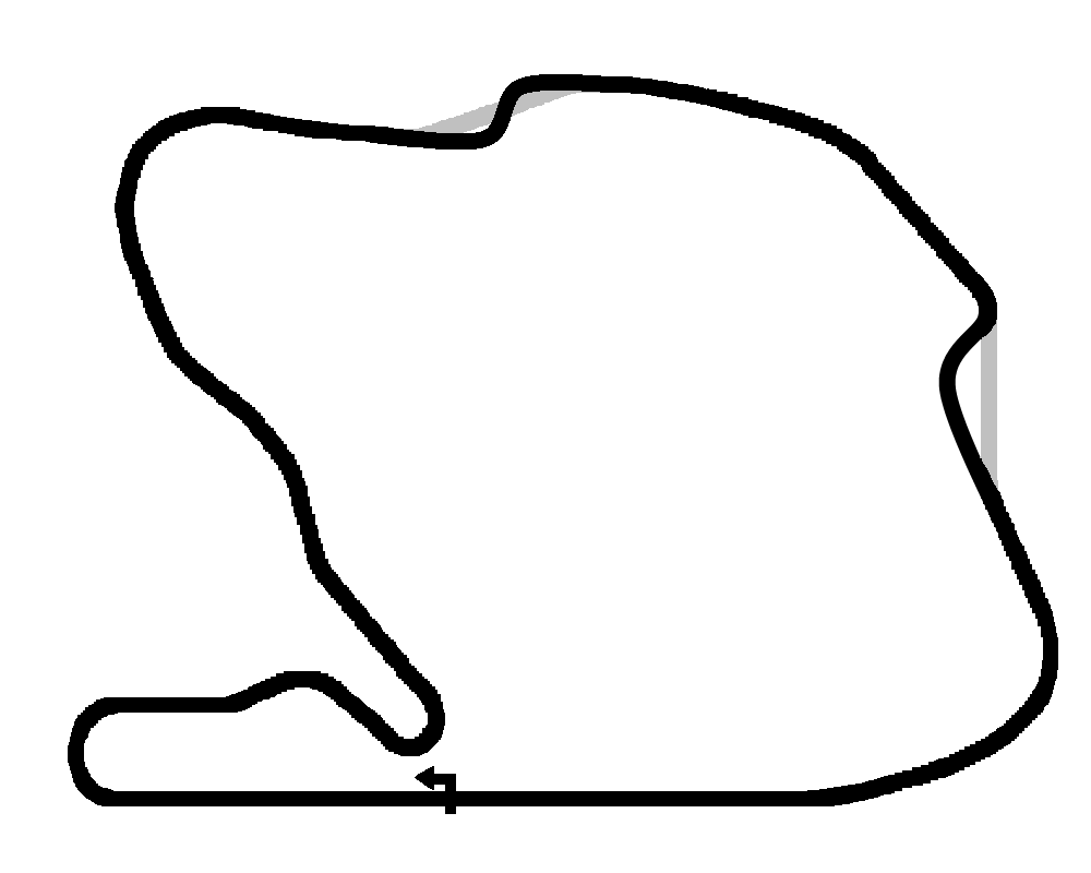 Circuit Park Zandvoort layout from 1980 to 1989, with Marlboro chicane instead of Hondenvlak left-right kink.